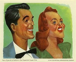 Promotional caricatures of Perry Como and Jo Stafford for The Chesterfield Supper Club, as part of the NBC Parade of Stars promotion. Copyright details This drawing is part of the 1947 NBC Parade of Stars network promotion. There were 56 drawings in the entire package, one representing each of the NBC Radio Network shows on the air at the time. The collection was made available in a portfolio. The artwork was used by NBC for promotion of both its radio network and the personalities who were part of the radio shows on it in 1947. The drawings were made available to the media and were used in print ads, as "car cards" (ads in buses and transit cars) and billboards, as well as point of purchase displays where sales of physical products were involved. They were also prominently displayed in the RCA Building and NBC Radio. Come See Your Fave NBC Star In Caricature Billboard 13 September 1947 NBC To Use Disk Series For Annual Promotion Billboard 19 April 1947 When NBC filed for copyright on these drawings, they did not copyright all of them as a folio but as individual works of art. Some of them were renewed in 1975, while others were not, leaving some of the folio as still under copyright and other caricatures from this portfolio as not renewed (now free use). Further complicating this is that there appears to be more than one work of art for some personalities. It is not known whether the second work was ever seen by the public. NBC appears to have filed for copyright and apparently asked Sam Berman to execute another caricature, which was also then copyrighted. List of Parade of Stars copyright renewals by title: pages 9-10 This image is not on the renewal list.